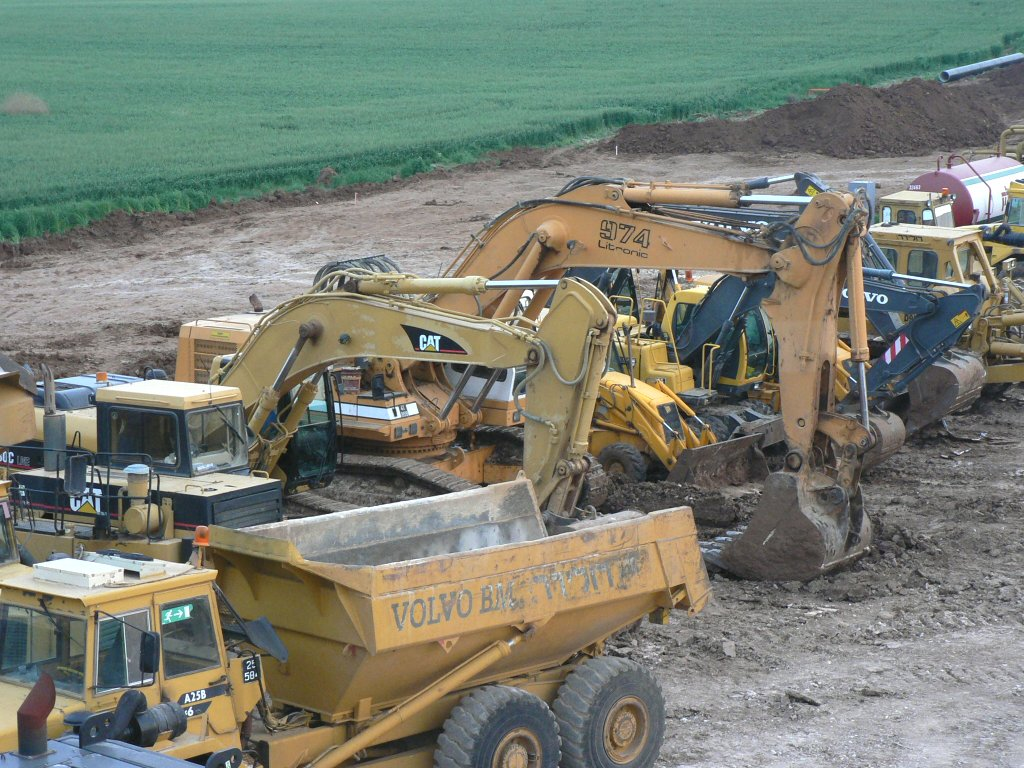 Parking lot of various engineering vehicles, such as excavators, backhoe loaders, front loaders, off-road trucks and bulldozers. Author: MathKnight